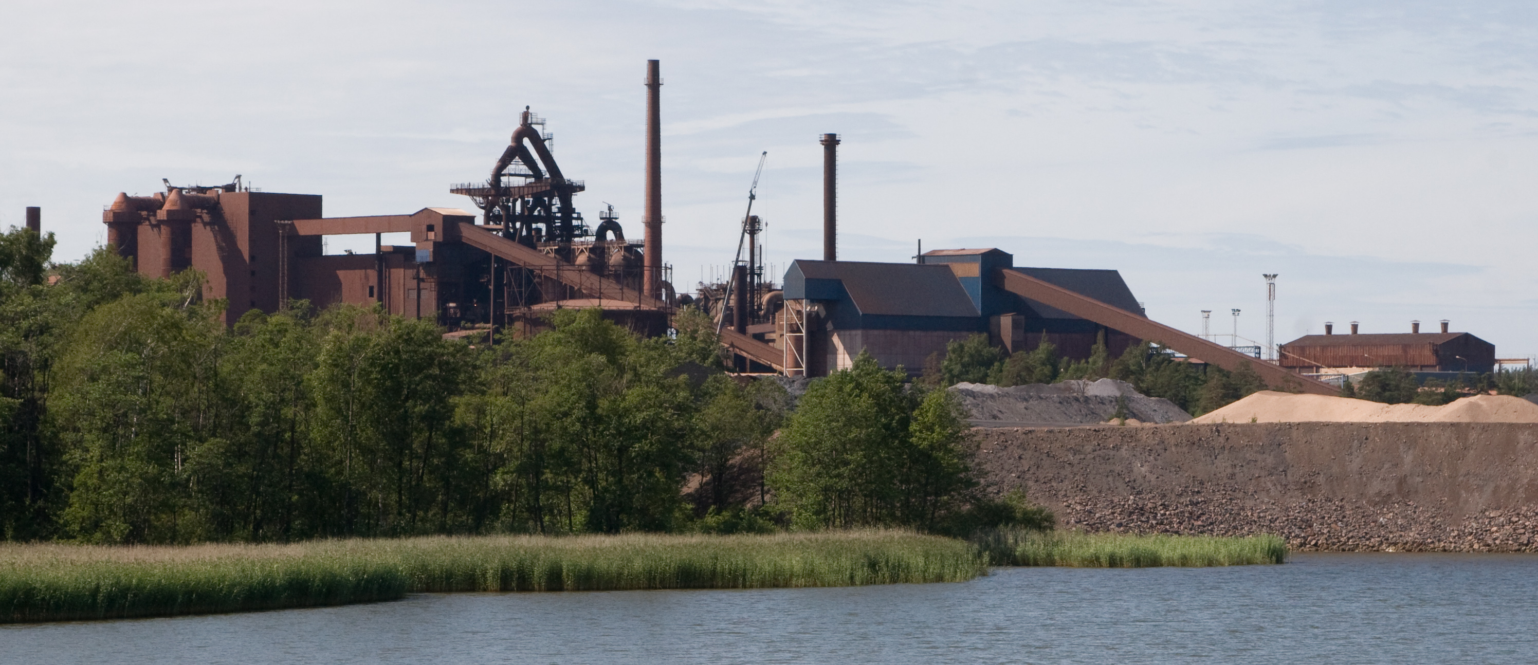 FNsteel, iron and steel mill in Koverhar, Hanko, Finland.